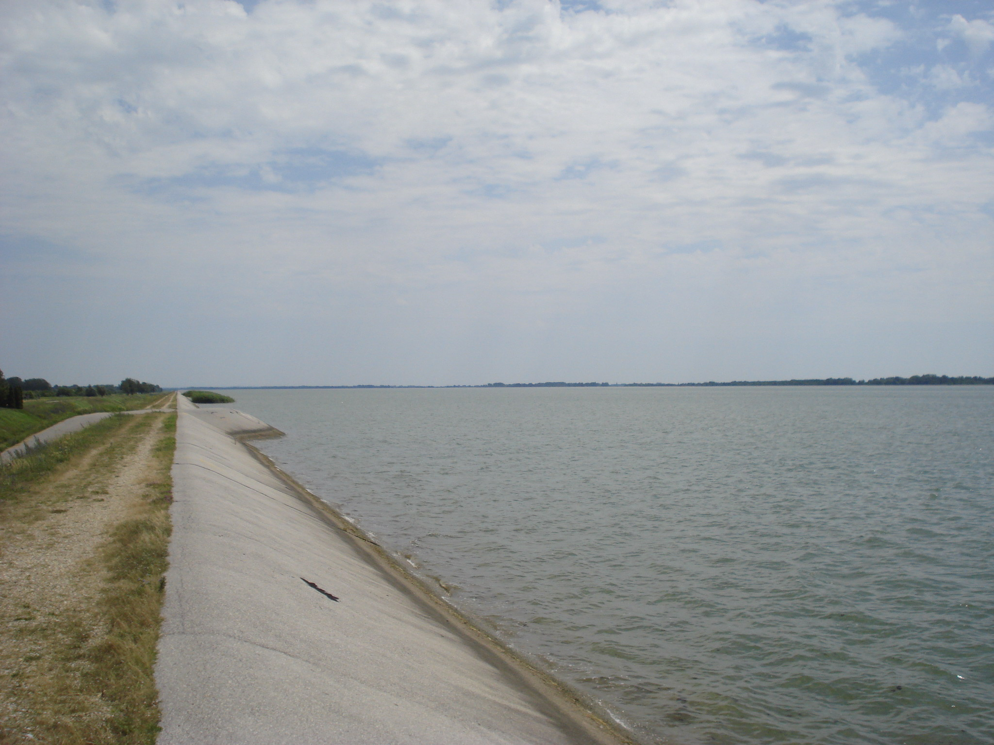 Lake Dubrava, an artificial lake on the Drava River in northern Croatia - eastern part